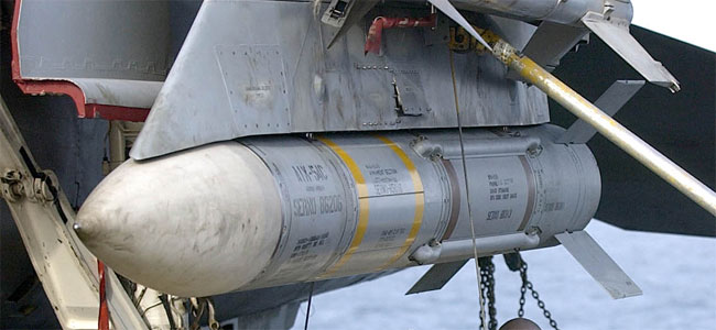 An AIM-54C Phoenix missile on an F-14 Tomcat. A cropped version of: 030320-N-4142G-013 Arabian Gulf (Mar. 20, 2003) – Aviation Ordnanceman install an AIM-54C Phoenix long-range air-to-air missile under the wing of a F-14D Tomcat assigned to the “Bounty Hunters” of Fighter Squadron Two (VF-2) onboard the aircraft carrier USS Constellation (CV-64). Constellation and Carrier Air Wing Two (CVW 2) are currently on a scheduled deployment in support of Operation Iraqi Freedom. U.S. Navy photo by Photographer's Mate 2nd Class Felix Garza Jr. (RELEASED)